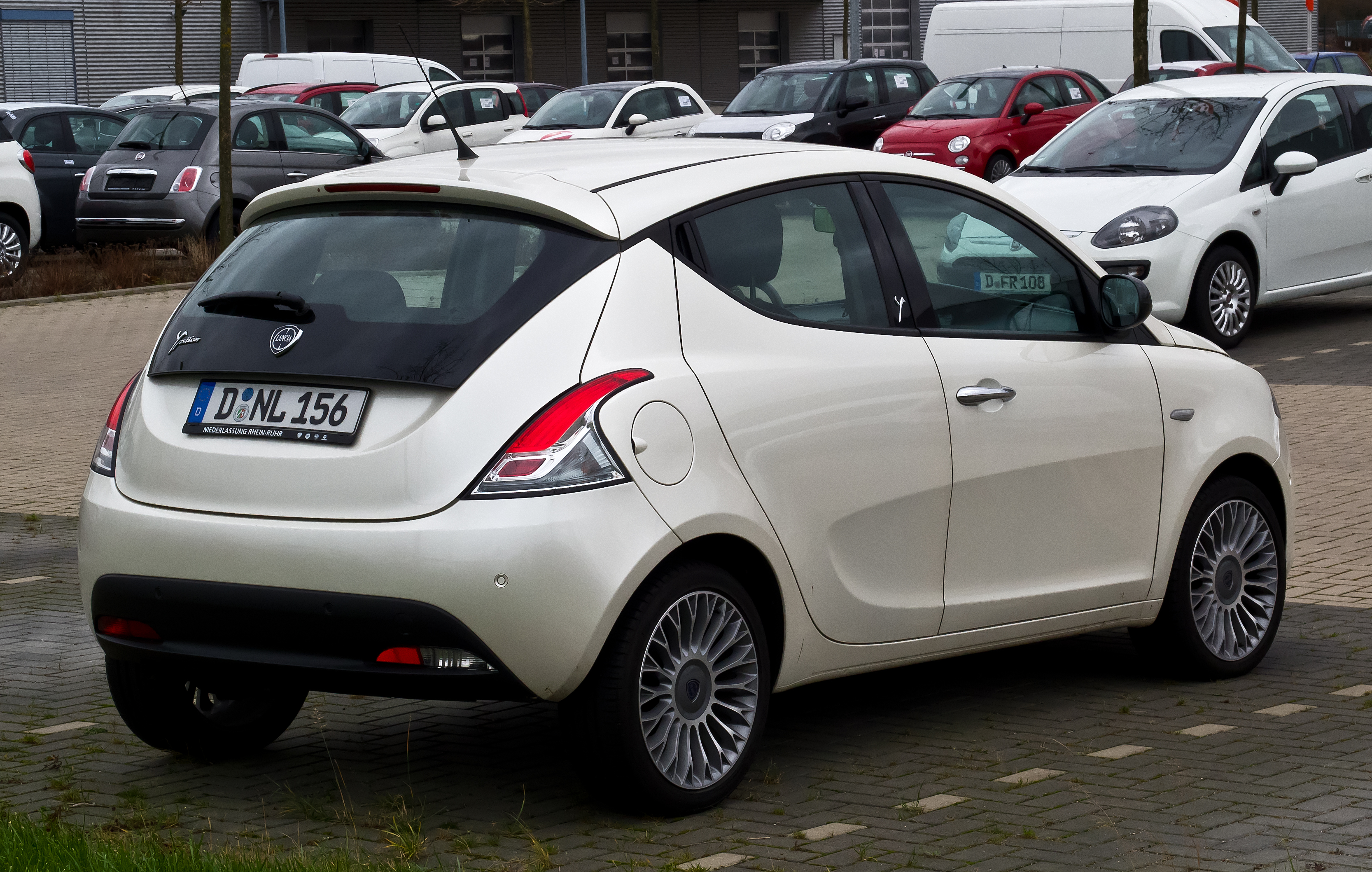 Lancia Ypsilon 0.9 TwinAir Turbo 8v Platinum (II)